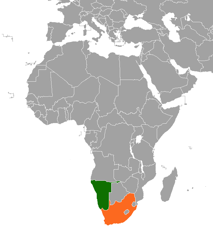 Namibia–South Africa Locations